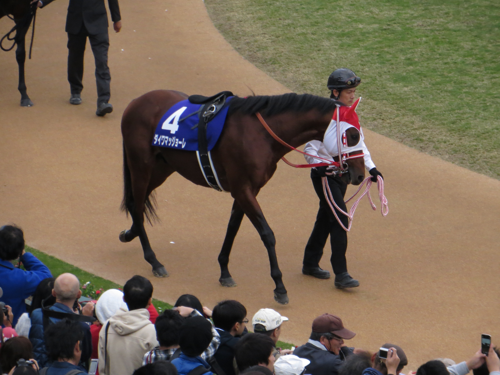 Daiwa Maggiore (Racehorse of Japan)